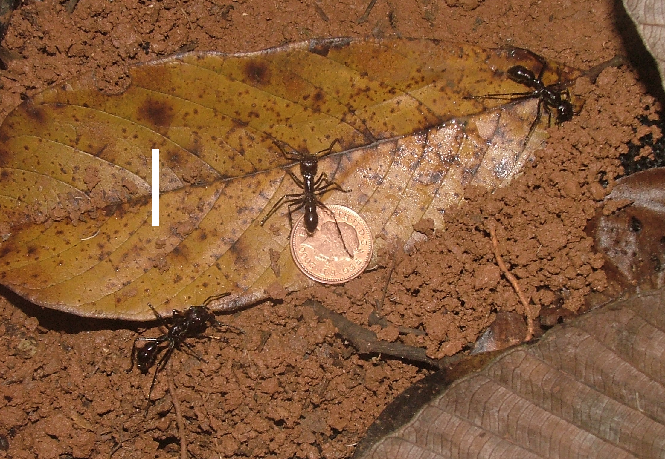 A photograph of three individuals of Paraponera clavata (Bullet ant) photographed in the Barro Colorado Nature Monument, Panama. A scale bar is provided which is 2cm long and the coin in the photograph is a British two pence coin.